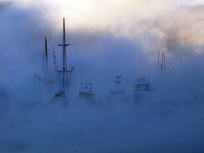 Commercial fishing in Juneau, Southeast Alaska